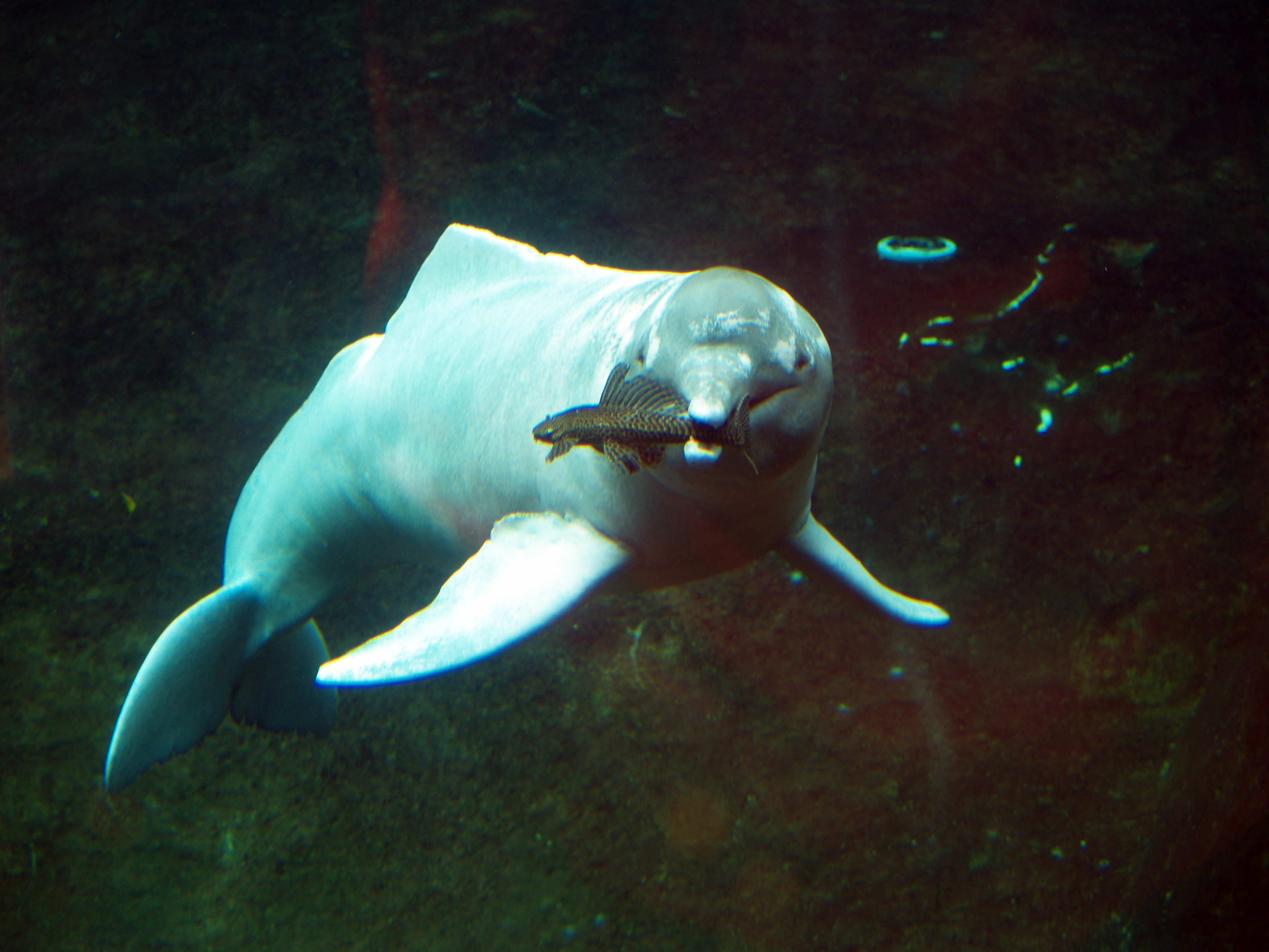 Inia at the zoo of Duisburg with Pterygoplichthys gibbiceps